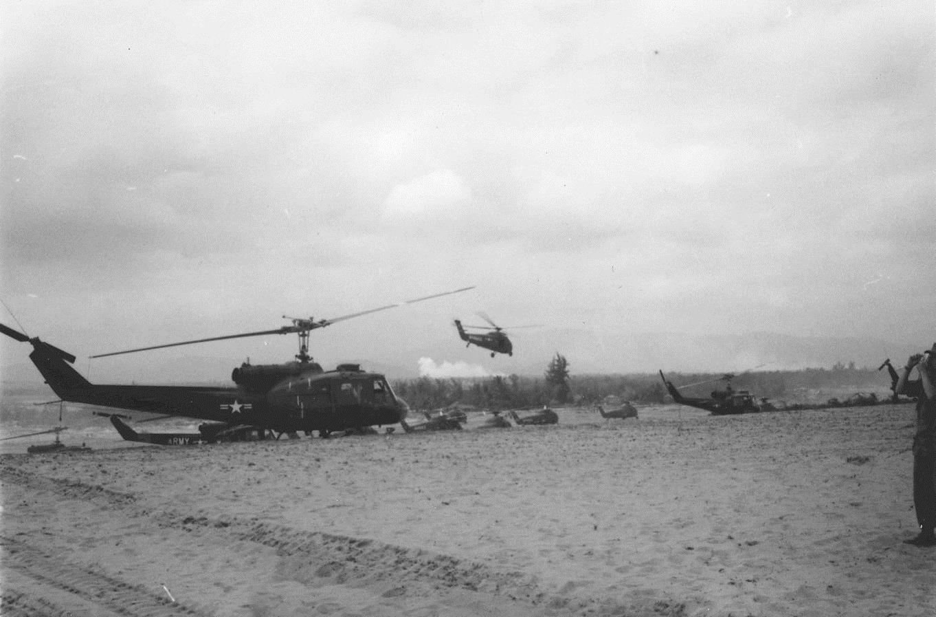 From the Gary Carlson Collection (RF2014-46) at the Marine Corps Archives and Special Collections OFFICIAL USMC PHOTOGRAPH